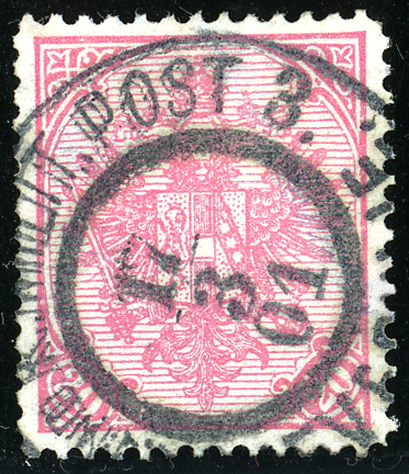 Stamp of Bosnia and Herzegovina, 20 heller issue 1900. Cancelled in 1901 at NEVESINJE. Michel N°16.